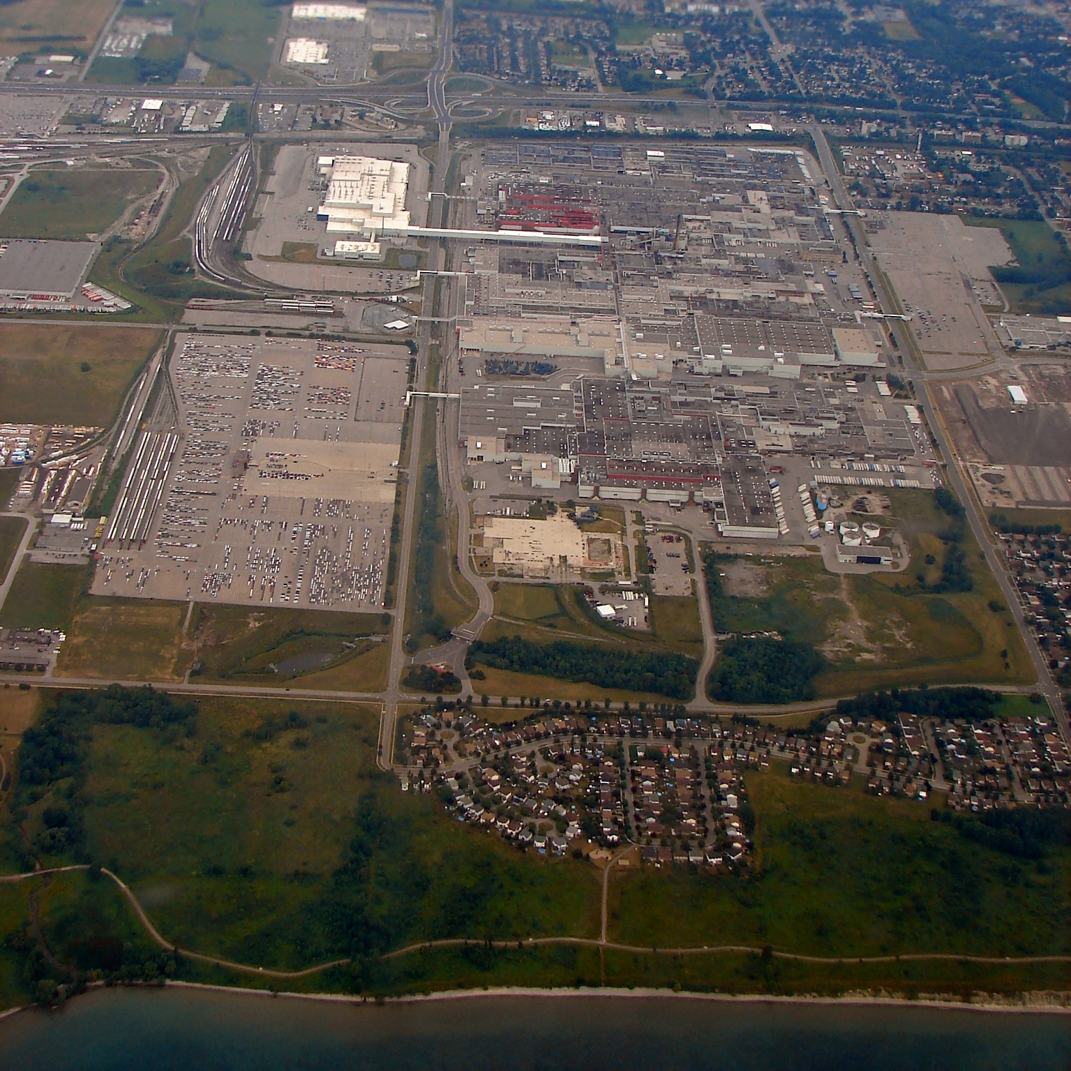 Aerial view of GM plant in Oshawa, Ontario, Canada